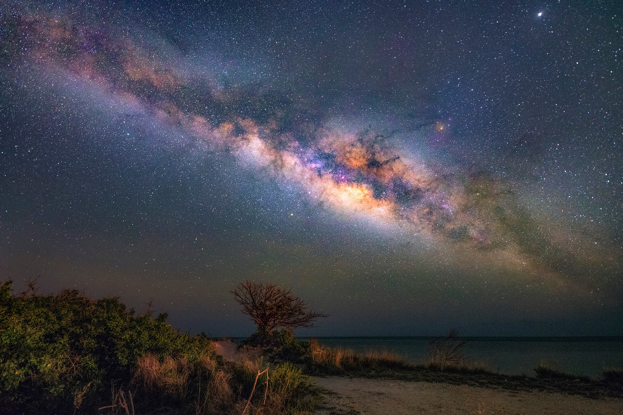 Photo of Milky Way on the Eastern tip of Scout Key in April 2018